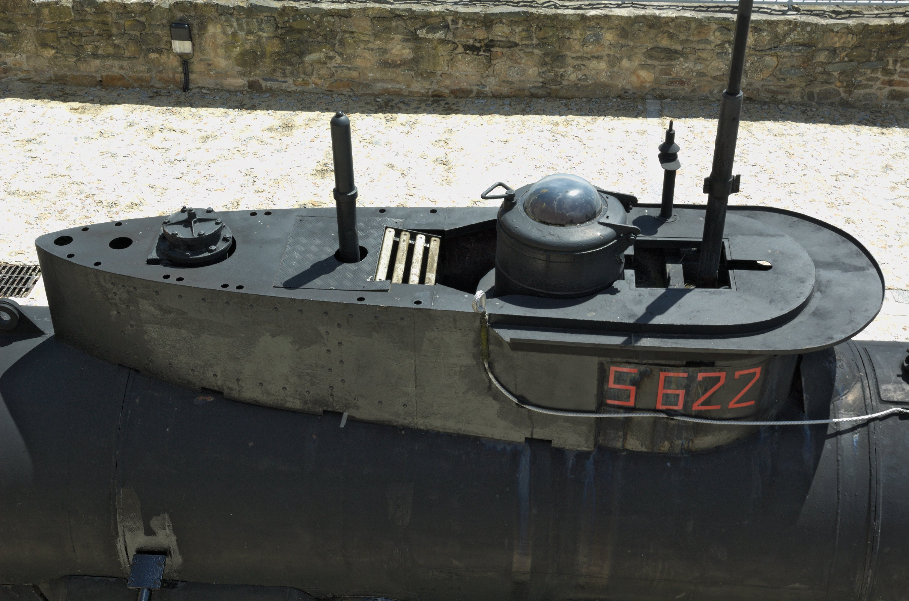 Seehund class midget submarine S 622 on display at the Château de Brest.